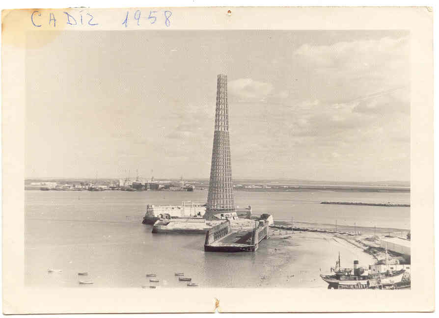 Torres de Cadiz circa 1958